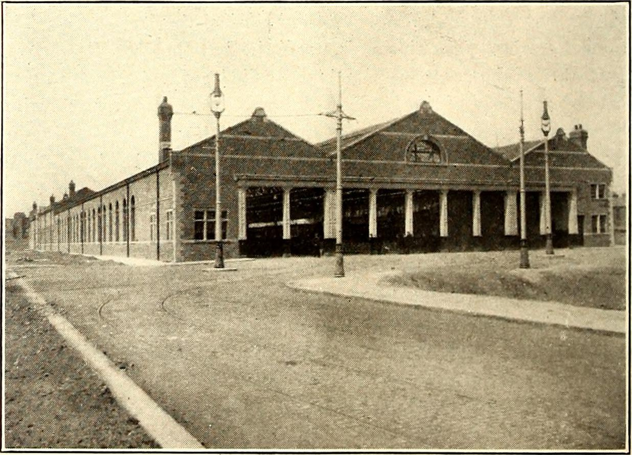 Title: The Street railway journal Year: 1884 (1880s) Authors: Subjects: Street-railroads Electric railroads Transportation Publisher: New York : McGraw Pub. Co. Text Appearing Before Image: guard against the creeping of the rails, especially on the steepinclines which are so frequent in Nottingham. Lock nuts areused throughout. Great satisfaction has so far been expressed asregards the use of the anchor joint plates; they give a much easierrunning joint than with the ordinary sole-plate. The paving consists mainly of 6 ins. x 3 ins. granite blocks, thegreater portion of which were obtained from the Leicestershirequarries, but Norway and Aberdeen granite blocks have alsobeen used. A considerable quantity of Jarrah and Karri woodpaving has been laid down in some of the main thoroughfares inthe center of the city. The tramways committee has adhered principally to the double- Text Appearing After Image: EXTERIOR OF BULWELL CAR HOUSE EXTERIOR OF TRENT BRIDGE CAR HOUSE wide and \Y% ins. deep. The fish-plates weigh 77^ lbs. per pair,are 31 ins. long, and are secured to the rail by eight i-in. bolts.The joints are fitted with Coopers patent anchor joint plates,which, as shown in the section, consist simply of a piece of rail30 ins. in length, inverted and secured to the bottom flange of therail by eight %-in. bolts. In addition to this joint brace there are deck, single-truck car, with the reversed stairway, as built by theElectric Railway & Carriage Works, of Preston. The singletruck was adopted in consequence of its being well known as agood hill climber, as some of the grades in Nottingham are from7 per cent to 9 per cent. Owing to a popular demand for eight-wheel cars, however, an order was placed for sixteen of this type, November 22, 1902.) STREET RAILWAY JOURNAL. 835 with maximum traction trucks, with only two motor equipmentsto each car. Six of the cars were put on the road